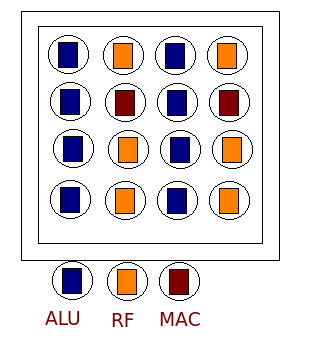 This file is a crude representation of FPOA architecture.